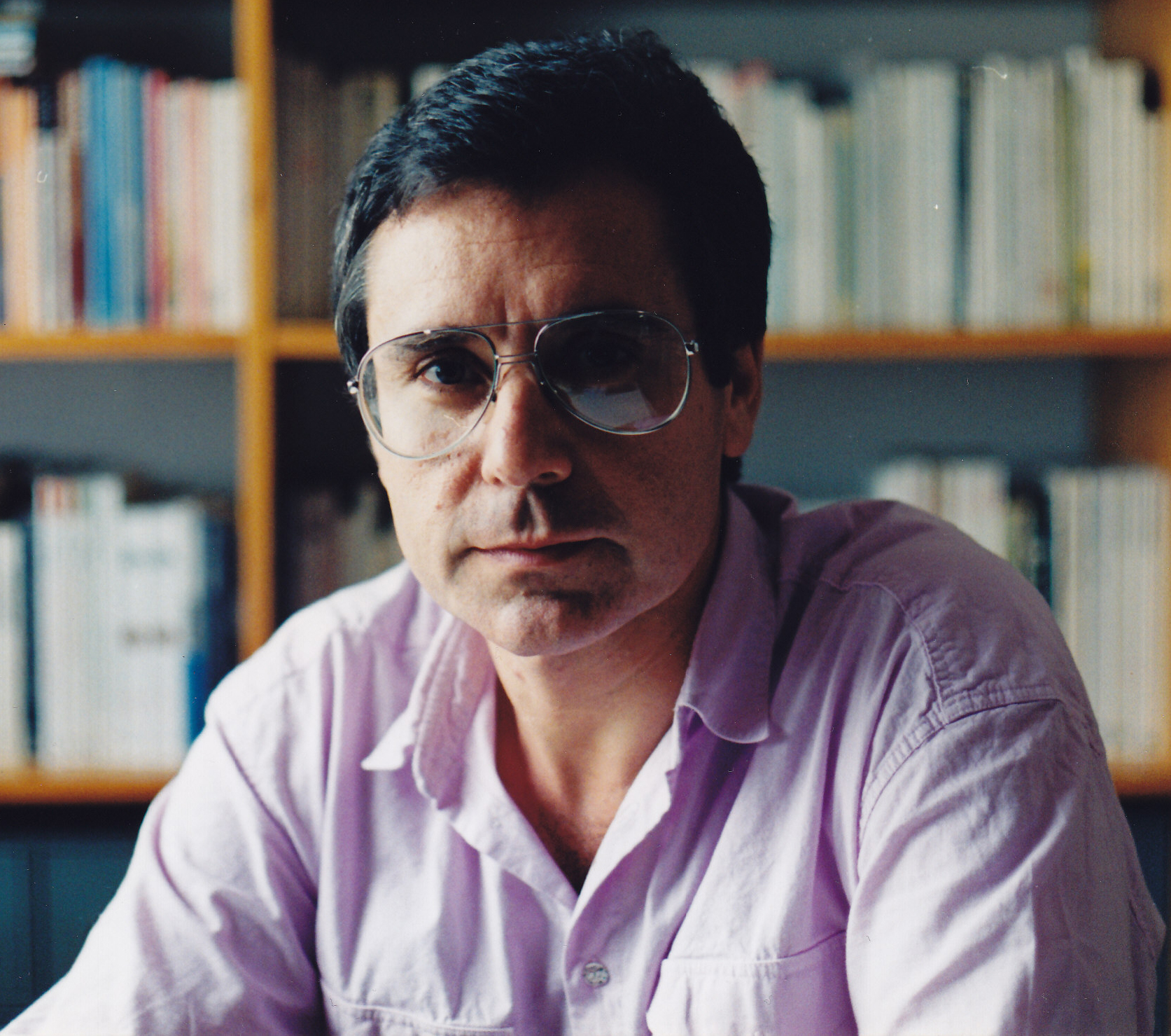 Eduardo Geada (Lisbon, 1945-05-21) is a Portuguese film director, screenwriter and professor.